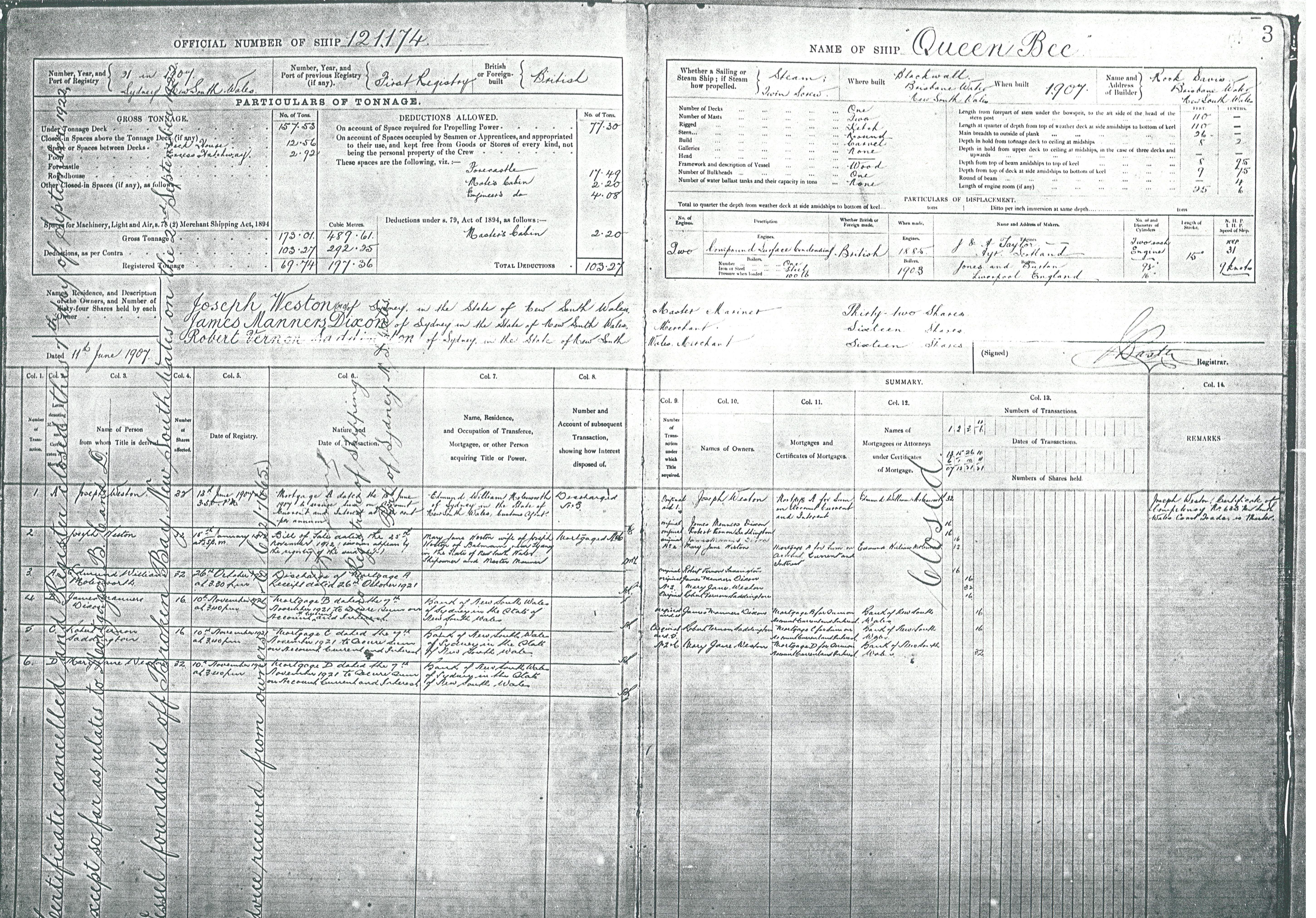 The steamer Queen Bee Ships Registry